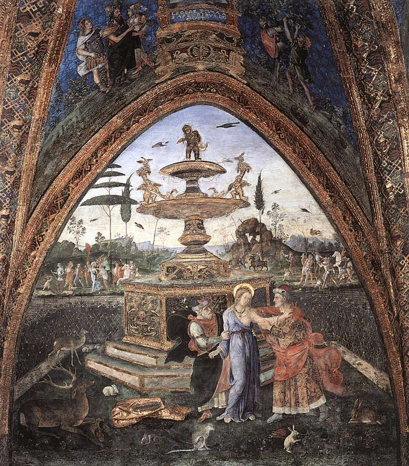 Susanna and the Elders